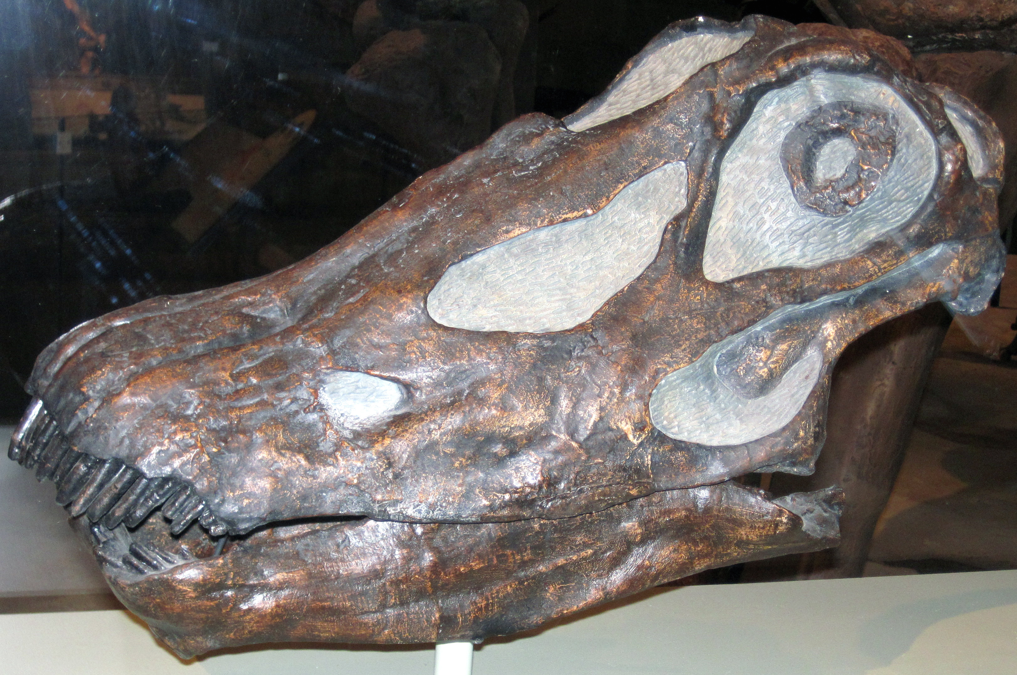 Diplodocus longus Marsh, 1878 sauropod dinosaur skull (cast of specimen CM 11161, Diplodocinae indet.) from the Upper Jurassic Morrison Formation of the Colorado Plateau, USA (public display, FMNH P 26228, Field Museum of Natural History, Chicago, Illinois, USA). Classification: Animalia, Chordata, Vertebrata, Dinosauria, Sauropodomorpha, Diplodocidae Sauropod dinosaurs were the largest terrestrial animals ever. They all have the same basic body plan: large body with four walking legs, very long neck & tail, and a small head relative to body size. Sauropods were herbivores, and are often perceived as holding their heads & necks up high to reach vegetation normally out of reach to other organisms. Modern reconstructions of many sauropod species depict them with heads and necks held close to the horizontal, or at low angles above the horizontal.